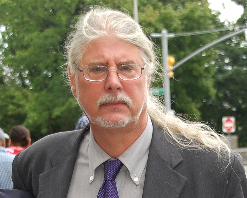 STATEN ISLAND, N.Y. -- Civil Rights attorney Ron Kuby (center) at the "We Will Not Go Back" march and rally called by Al Sharpton and the National Action Network to demand justice for the family of Eric Garner whose death was declared a homicide by the NYC Medical Examiner. Garner died on July 17, 2014 while being arrested by police. The ME ruled the cause of death was an illegal chokehold (applied by P.O. Daniel Pantaleo) and "chest compression" - prompting civil rights advocates to organize this very large protest (approximately 4000 demonstrators).